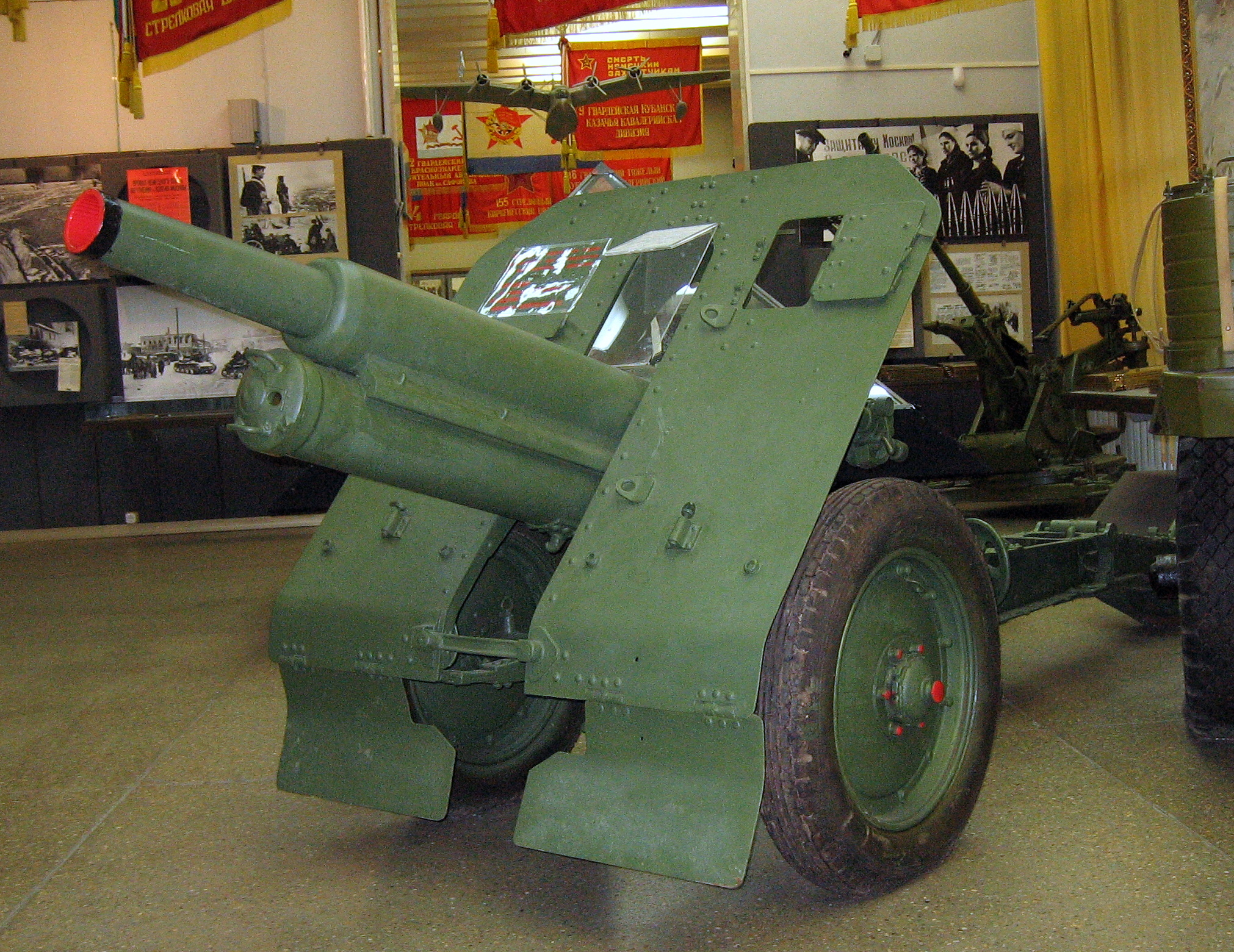 Soviet 76mm mountain gun M1938, displayed in Moscow Military Museum. Photo taken on 19 July, 2007. Source: Photo by me, User:Сайга20K.